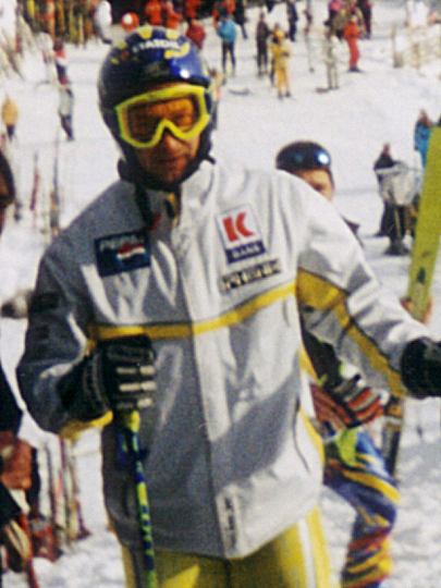 Norwegian alpine skier Kjetil André Aamodt before downhill training in Kitzbühel (Austria) on January 20th, 2000.